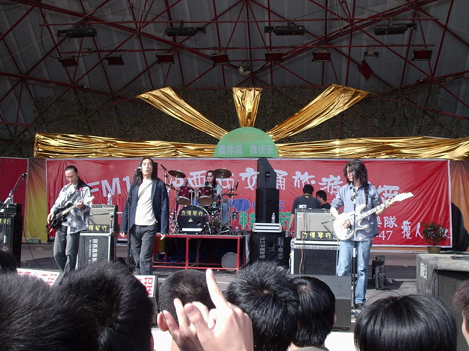 The godfathers of Chinese heavy metal, Tang Dynasty, play at a mini-festival on May Day in Xi'an.